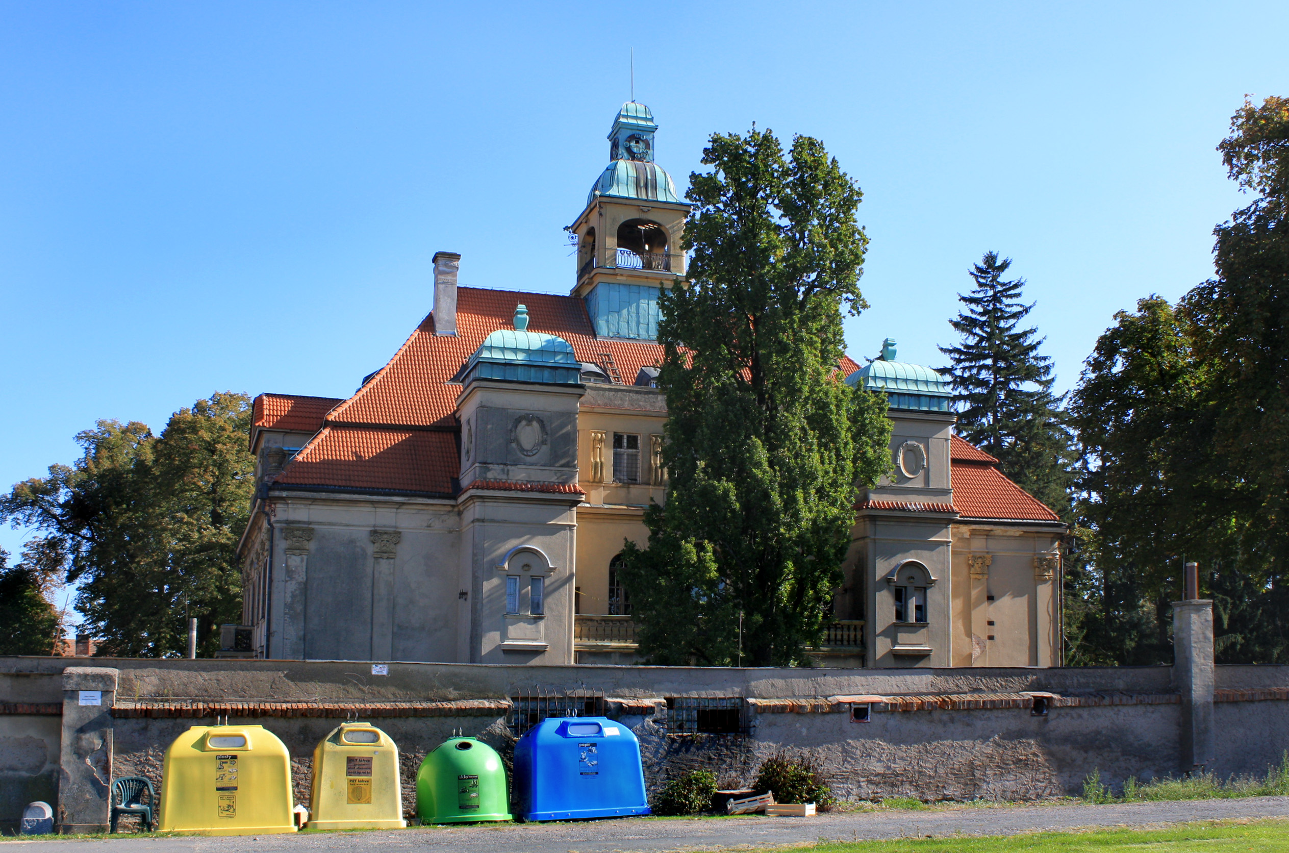 Hrochův Týnec Castle in Hrochův Týnec, Czech Republic